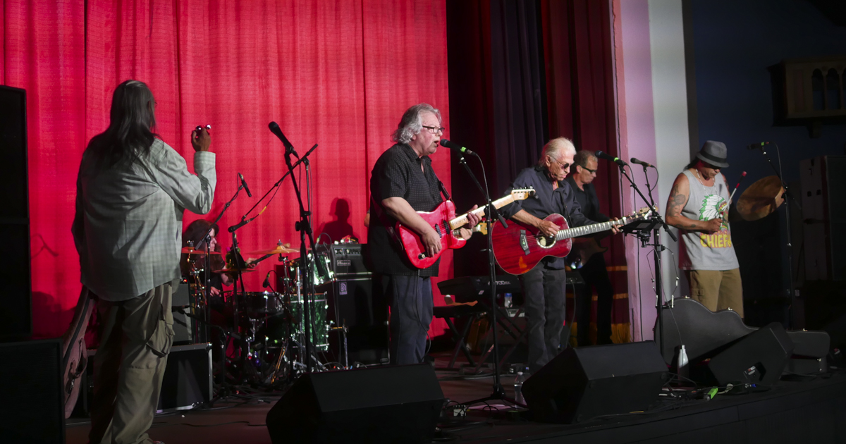 Woodfest 2018